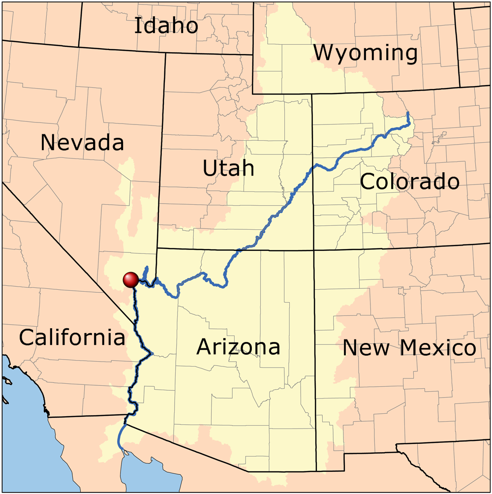 Hoover Dam, once known as Boulder Dam, is a concrete arch-gravity dam in the Black Canyon of the Colorado River, on the border between the US states of Arizona and Nevada.